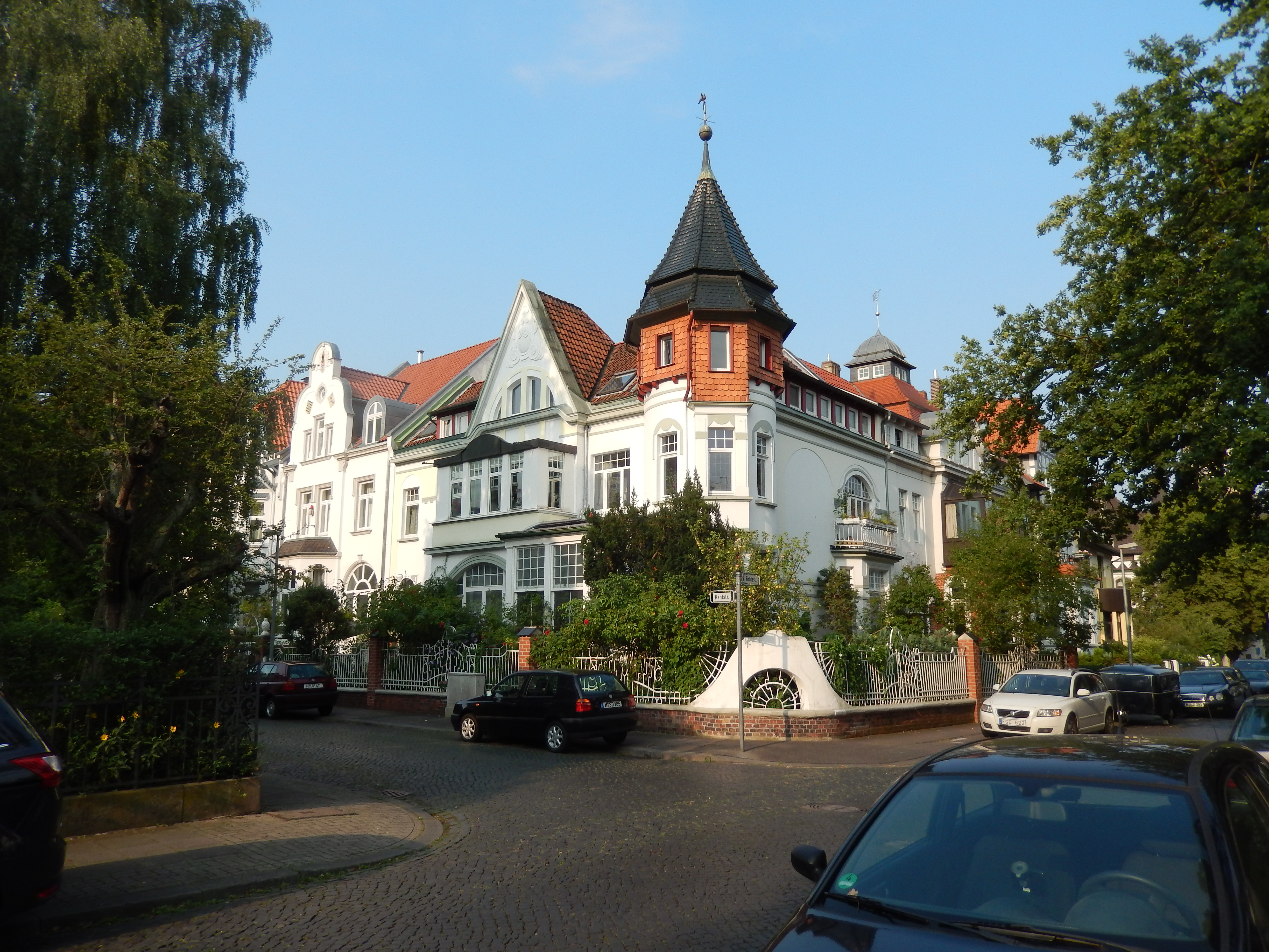 Residential house in Hannover, Germany.